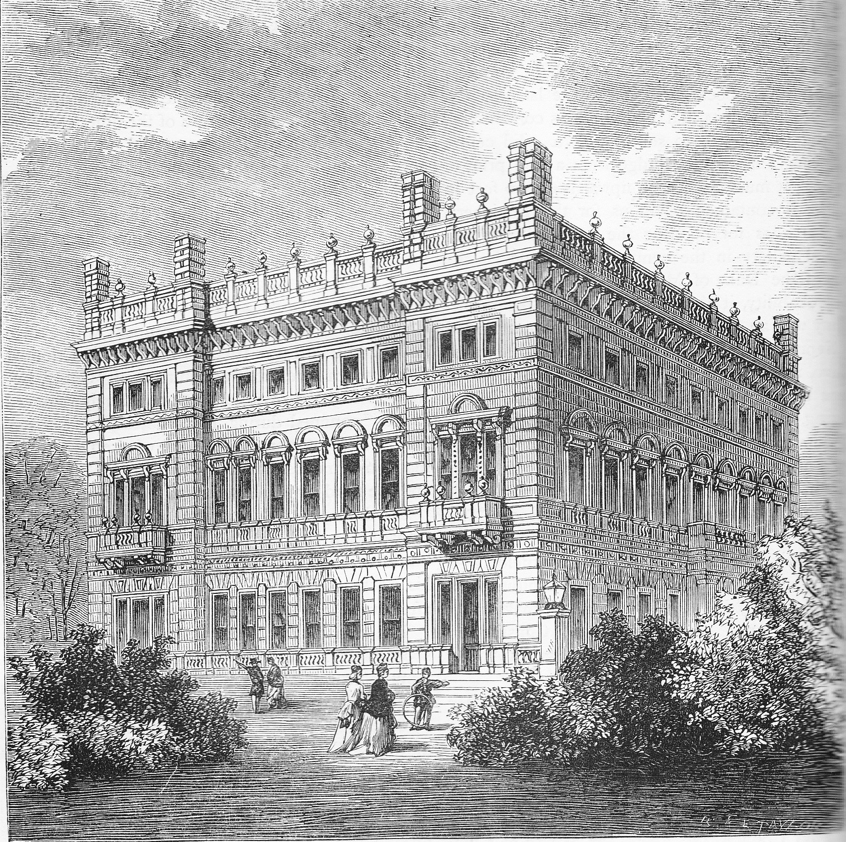 Bridgewater House, Westminster, London. Image published in Walford, Edward. Old & New London, A Narrative of its People & its Places, 6 vols., London: Cassell, 1878, vol 4, p.180. Note: Bridgewater House was designed in Italian Palazzo style by Charles Barry for Francis Egerton, 1st Earl of Ellesmere.